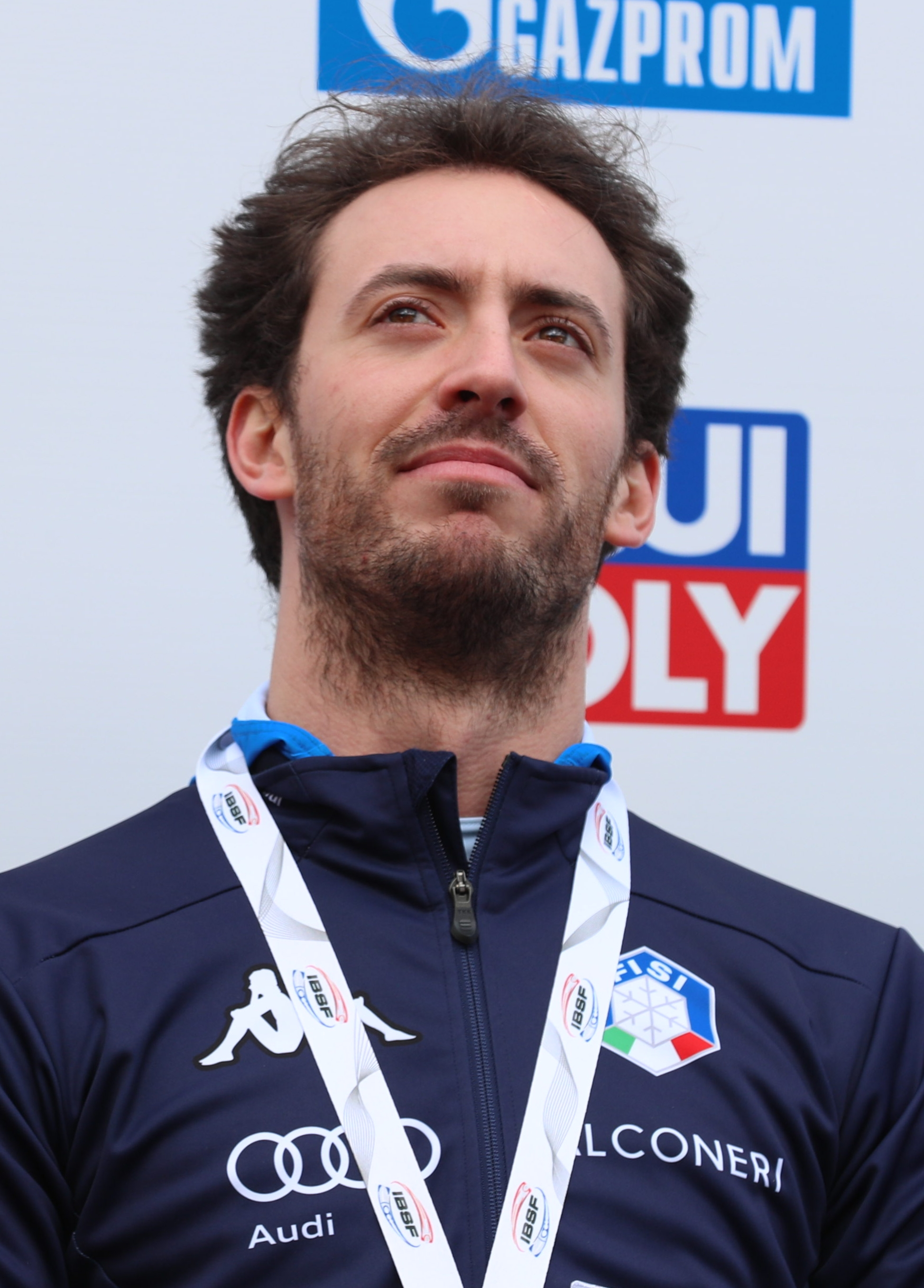 Medal Ceremony of the Skeleton Mixed Team competition at the Bobsleigh and Skeleton World Championships 2020 in Altenberg